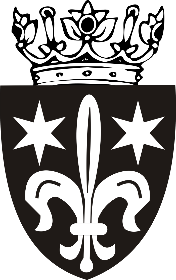 The old coat of arms of Burzenland, Romania.